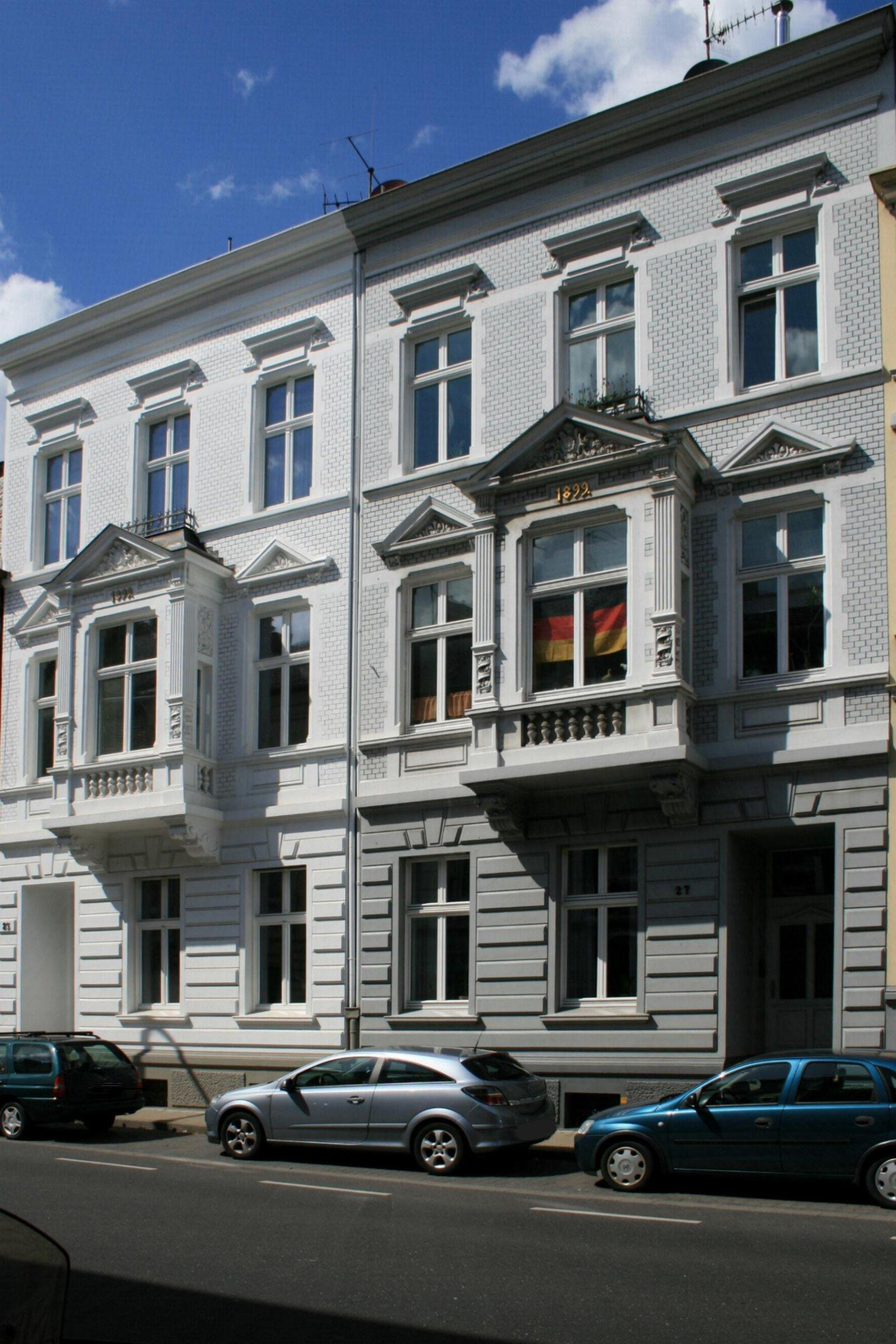 Cultural heritage monument No. D 018 in Mönchengladbach